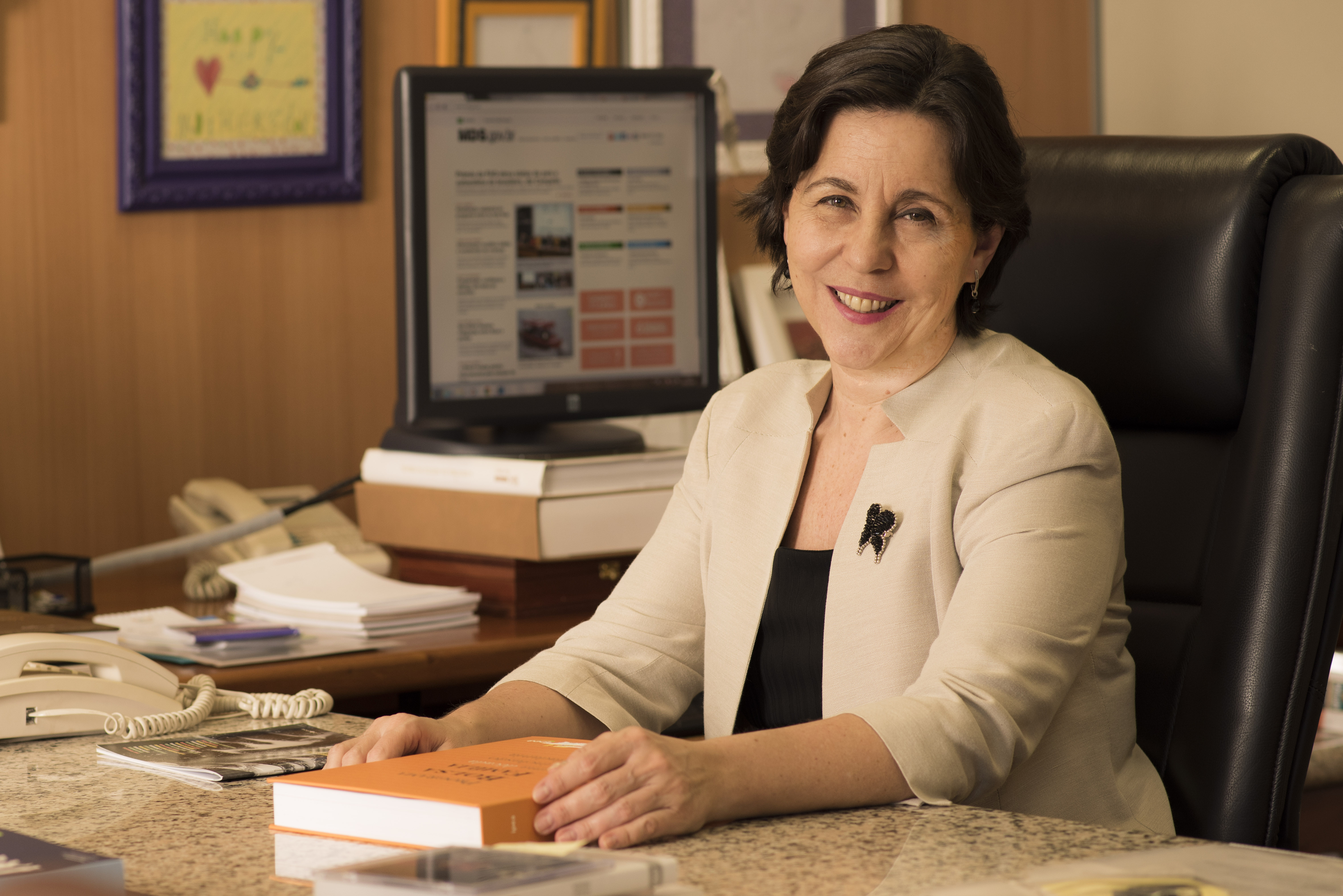 Brasília,05/12/2014. Tereza Campello, ministra do Desenvolvimento Social e Combate à Fome. Foto: Sergio Amaral/MDS